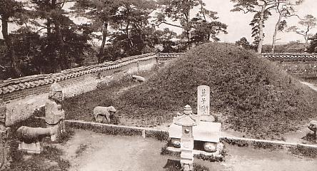 Mausoleum of Jizi